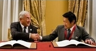 Japan has provided the IMF with an additional $100 billion to bolster the Fund's lendable resources during the current global economic and financial crisis.